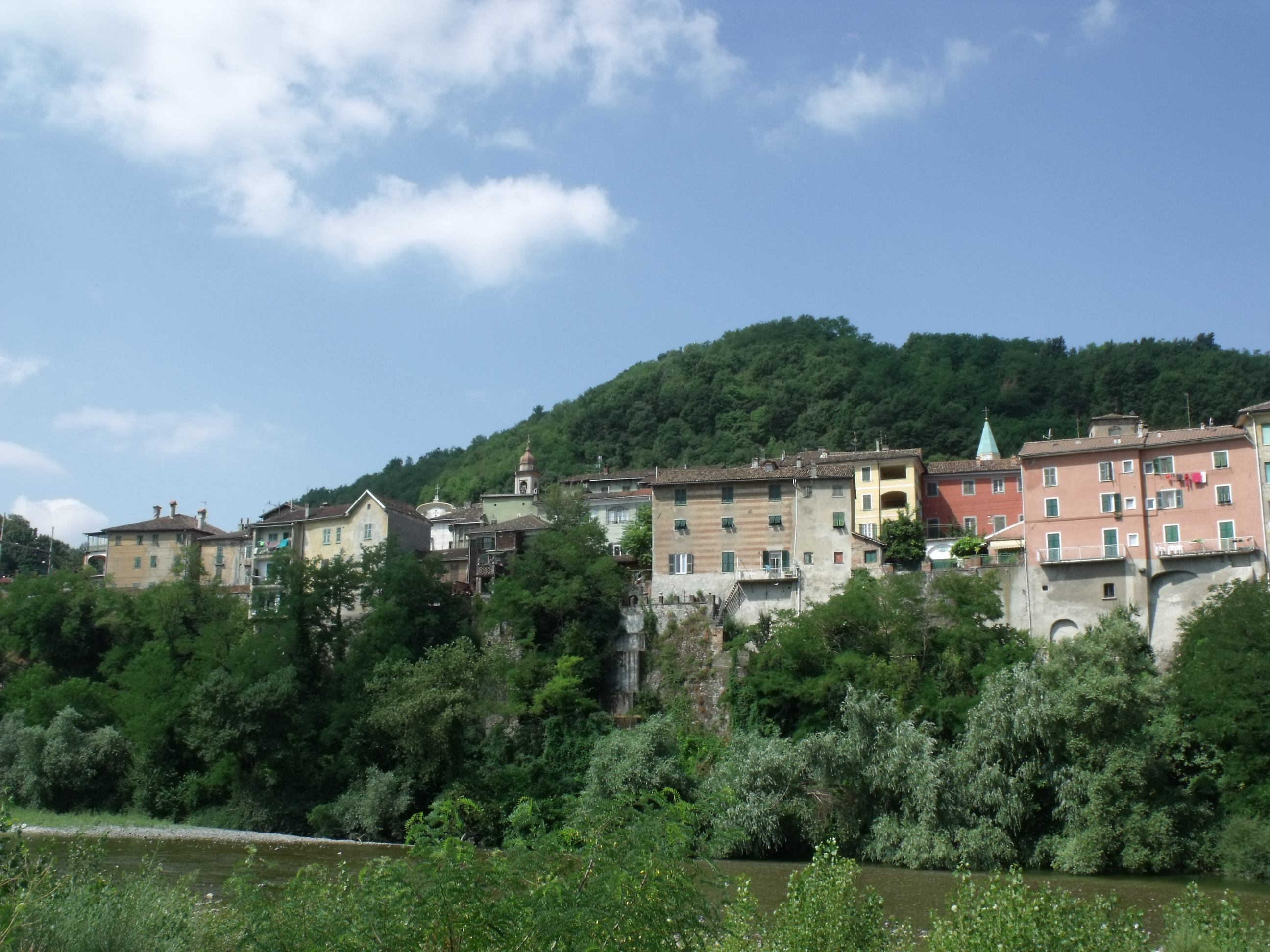 The Scrivia River and Panorama of Serravalle Scrivia, Province of Alessandria, Region Piedmont, Italy